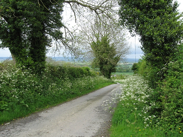 Country Lane Country lane with Cow Parsley in blossom, near Freneystown.